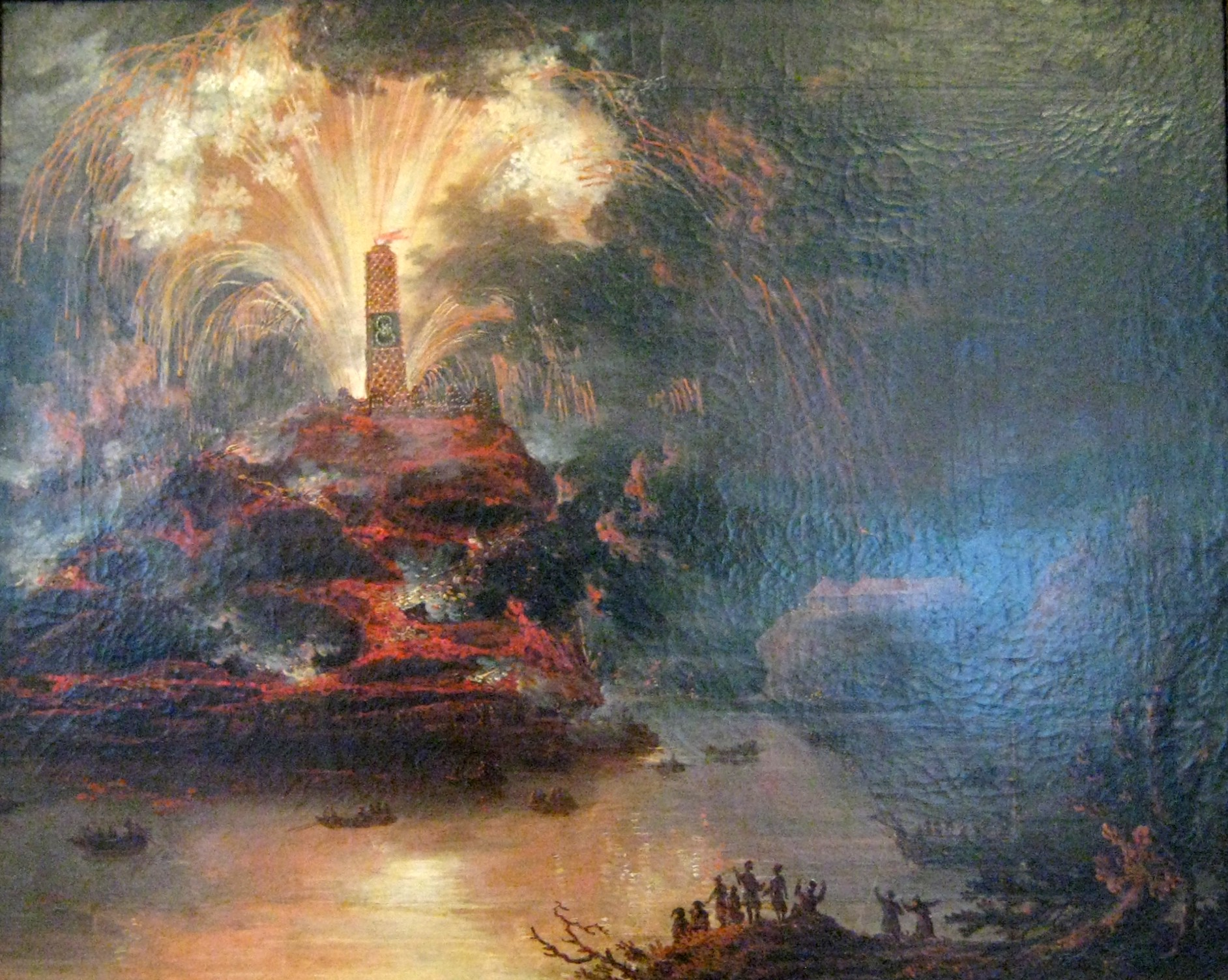 Fireworks during the journey of Catherine II of Russia to Crimea. Фейерверки в честь Екатерины во время путешествия в Крым. See the note for File:Plersch Night illumination of Kaniów.jpg